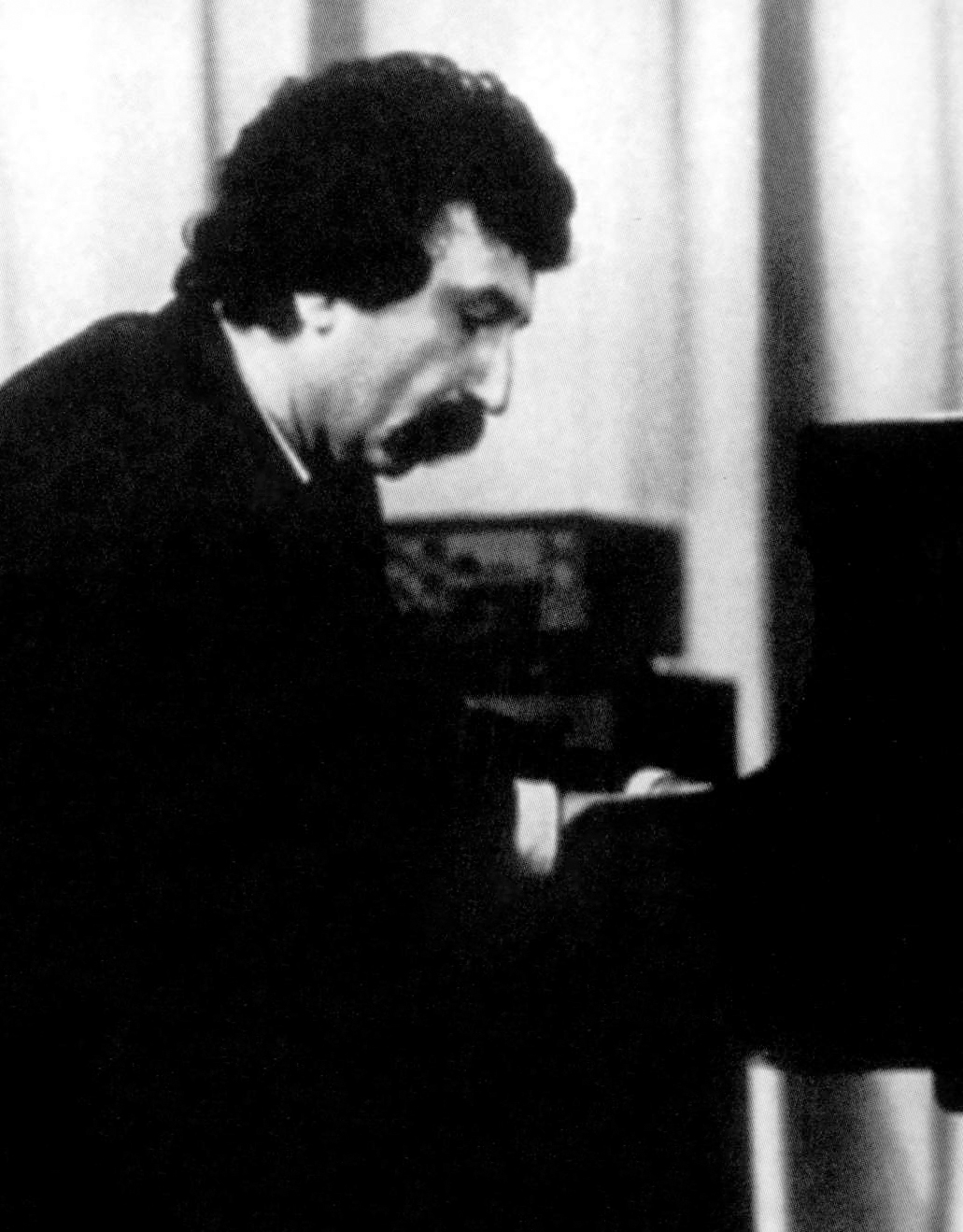 Vagif Mustafazade - Azerbaijani pianist, founder of Azerbaijani jazz.